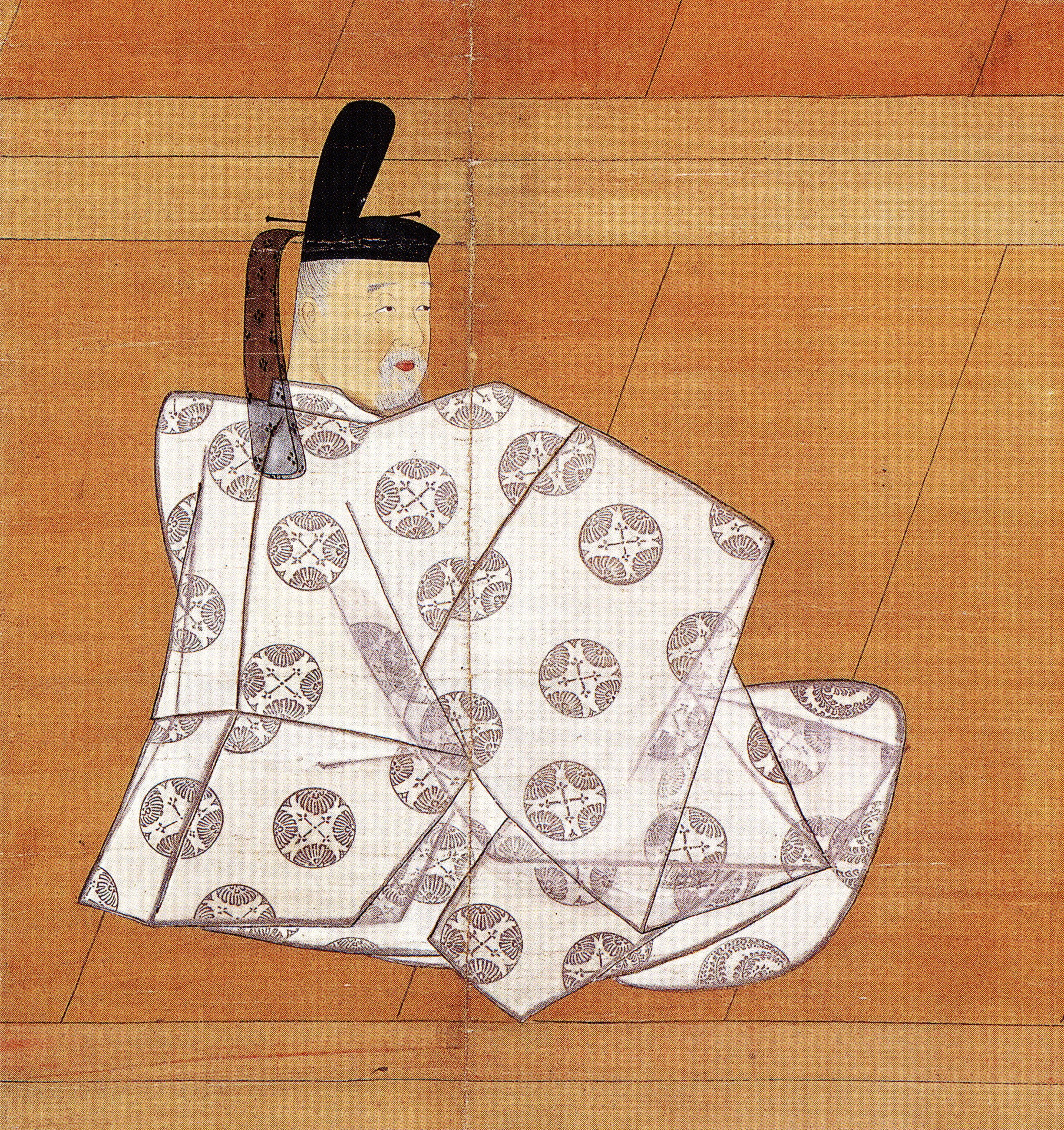 Portrait said to be of Madenokōji Nobufusa (1258-1348)